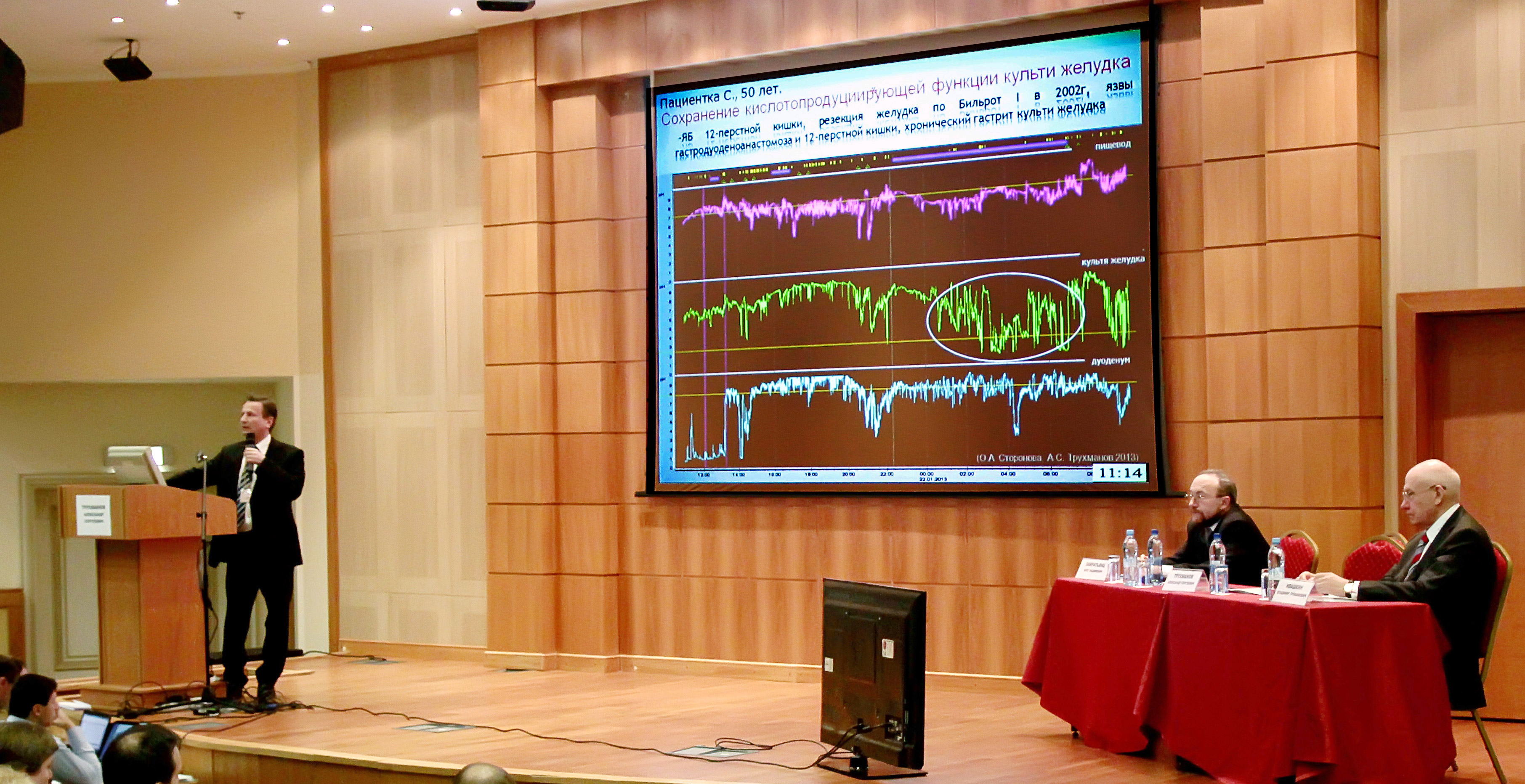 The Russian Gastroenterological Association. The conference "Stomach-2013. Still Terra incognita". Moscow, 2013-02-21. Right - President RGA VT Ivashkin. The report on "Possibilities and limitations of functional diagnostics of diseases of the stomach" does Chief Scientific Secretary RGA prof. AS Trukhmanov (left)